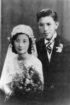 Zhou Peiyuan's wedding picture,with his wife,taken in June 18th,1932.